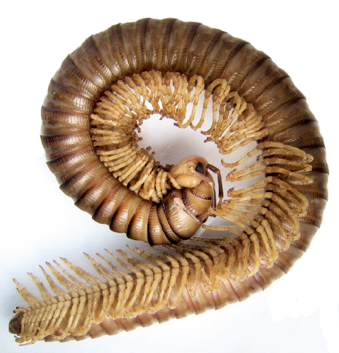 Eurygyrus ochraceus C.L. Koch, 1847 [Diplopoda: Callipodida: Schizopetalidae]. Ukraine: Crimea.